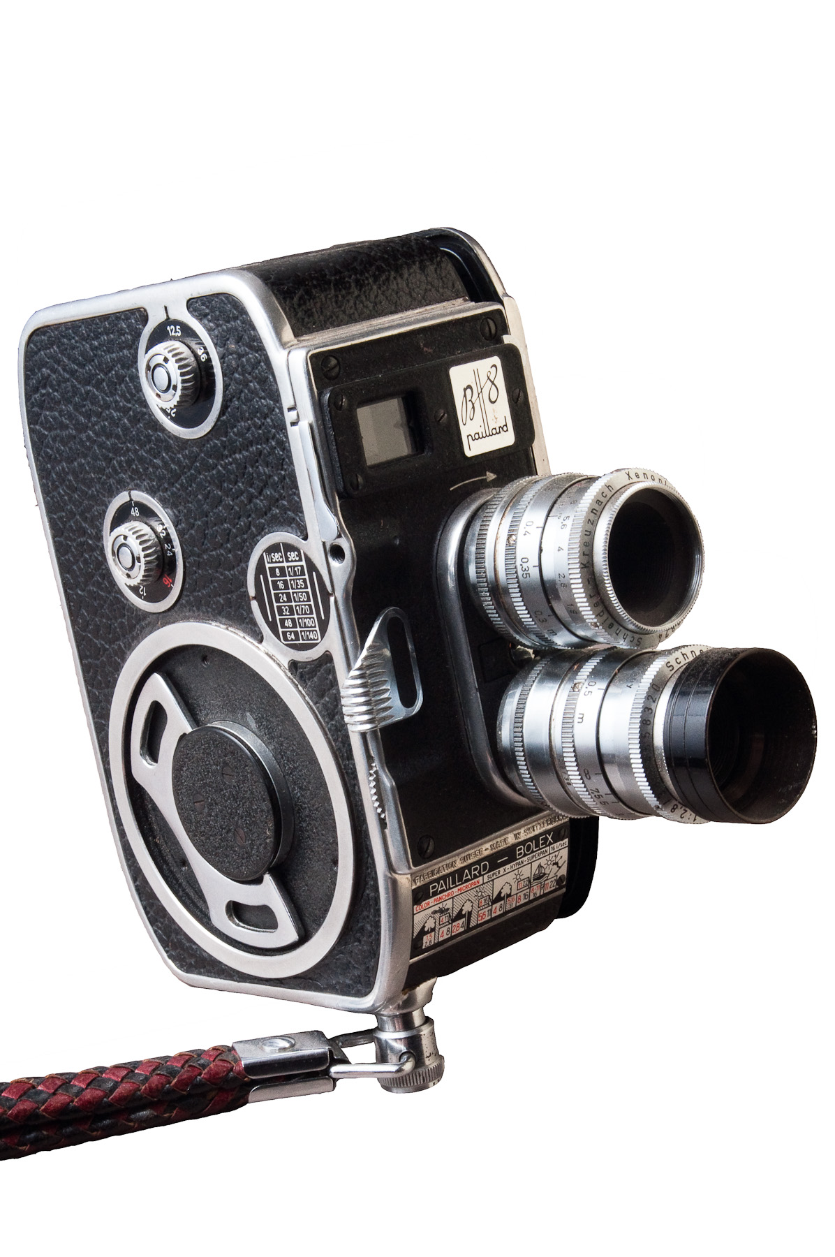 Paillard Bolex B-8 double-8 camera. build in 1956